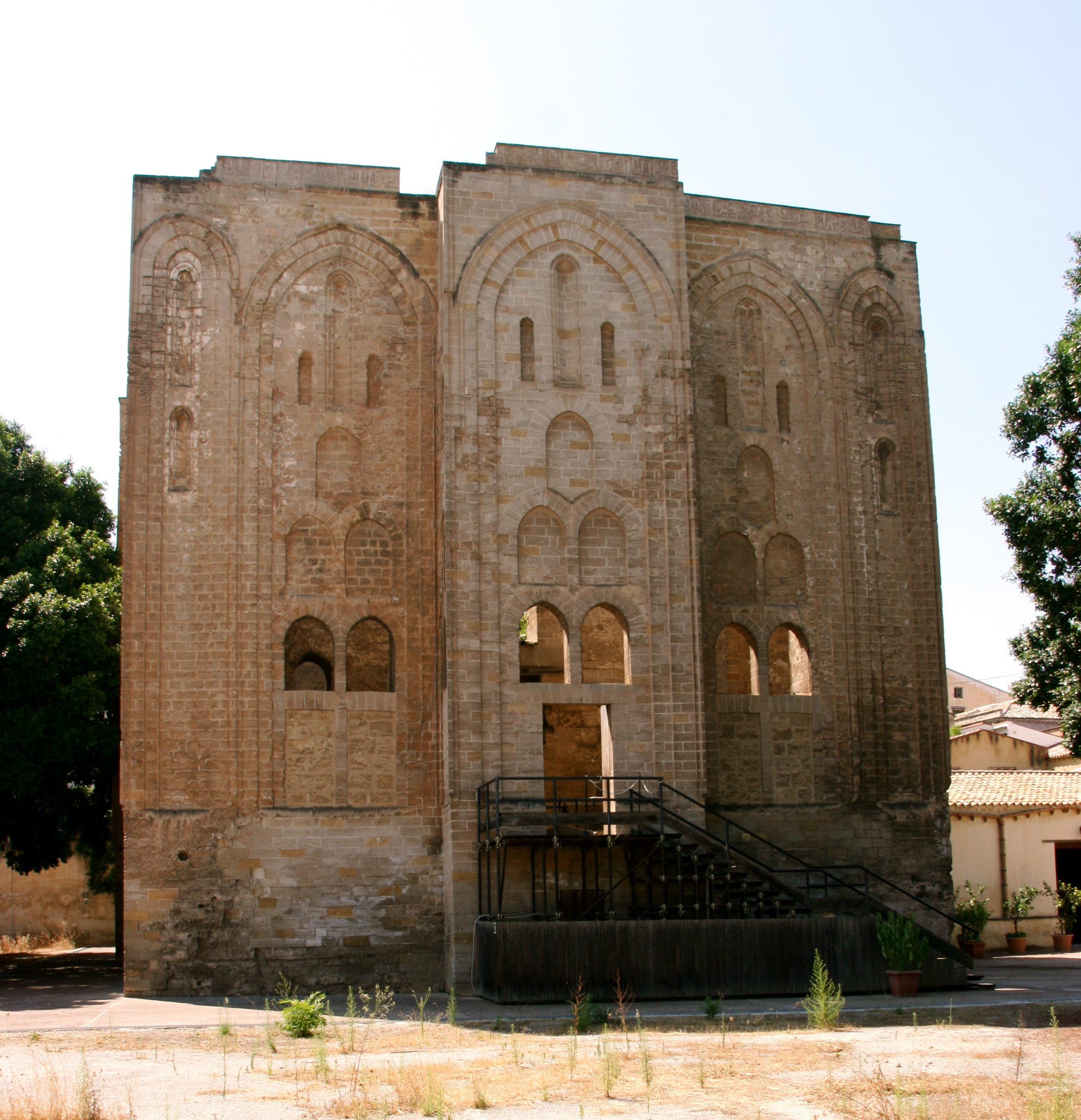 La Cuba (Palermo), Italy - Front View